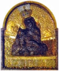 Virgin of Mega Spileo